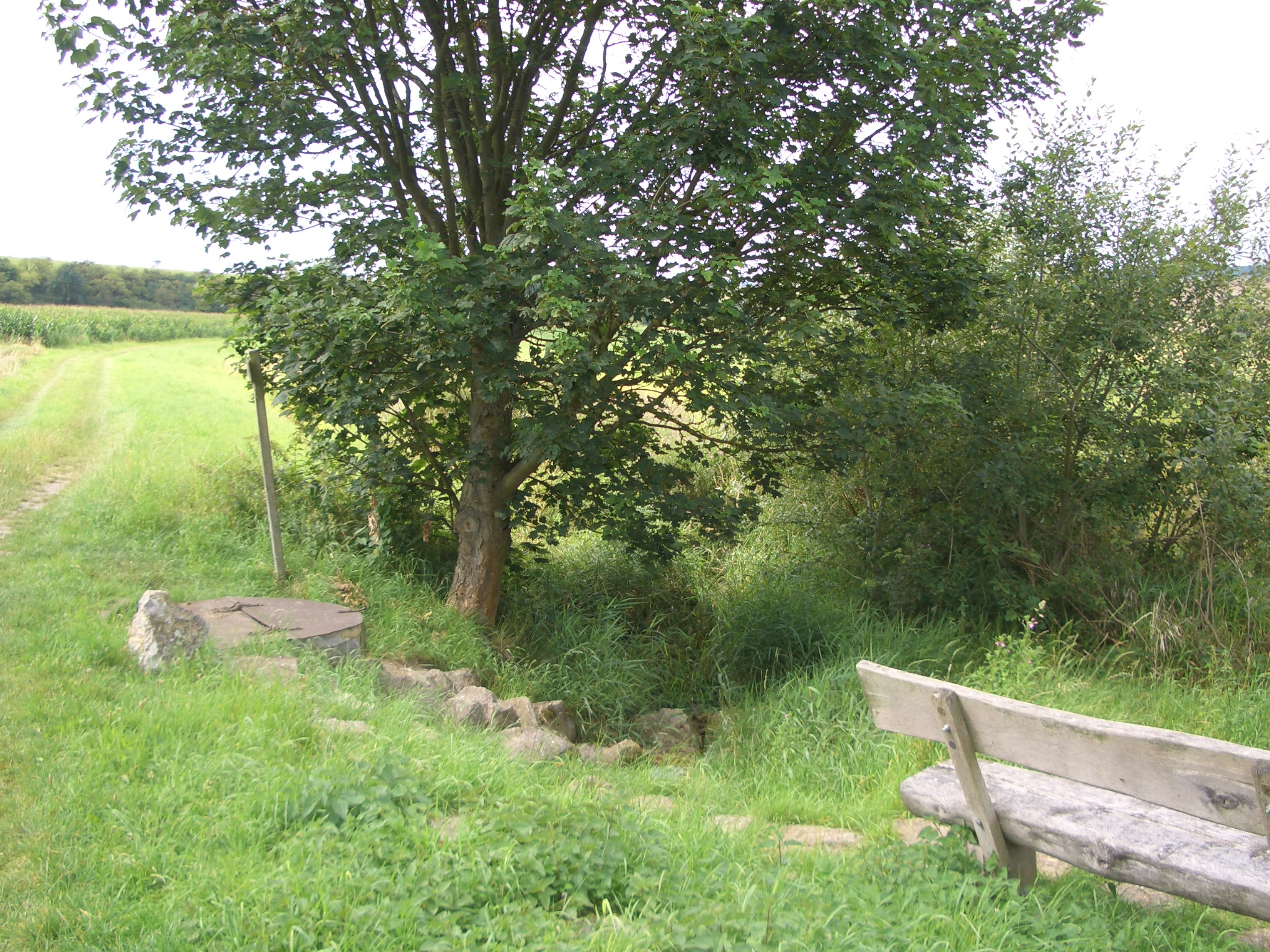 Wernquelle